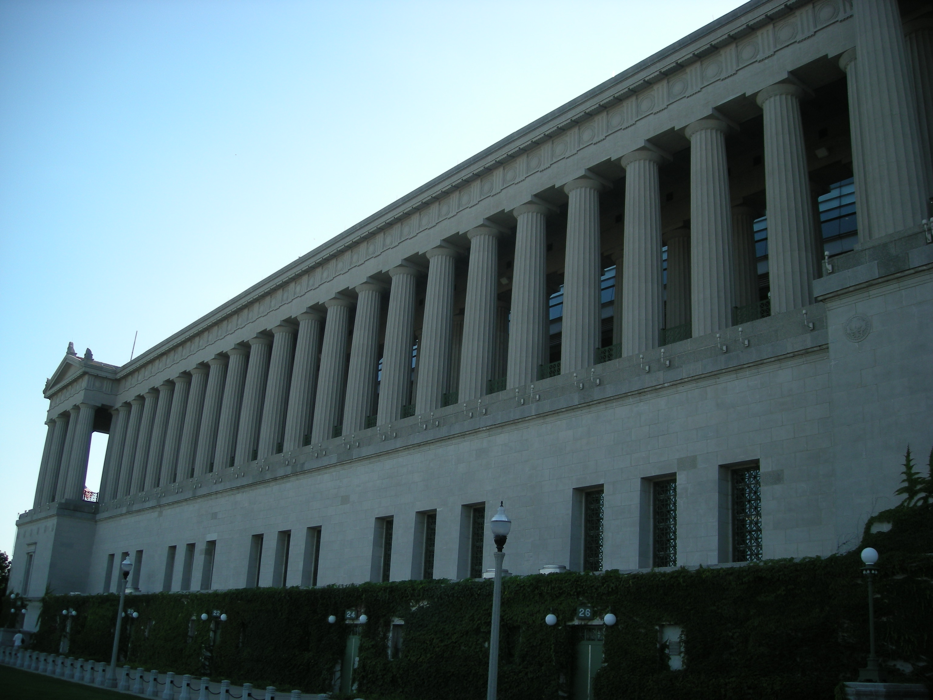 The colonnade of Soldier Field in Chicago, Illinois (United States).